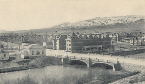 The Virginia Street Bridge in downtown Reno, Nevada. The large building dominating the background is the old Riverside Hotel. The white building next to the bridge is the Carnegie Library.